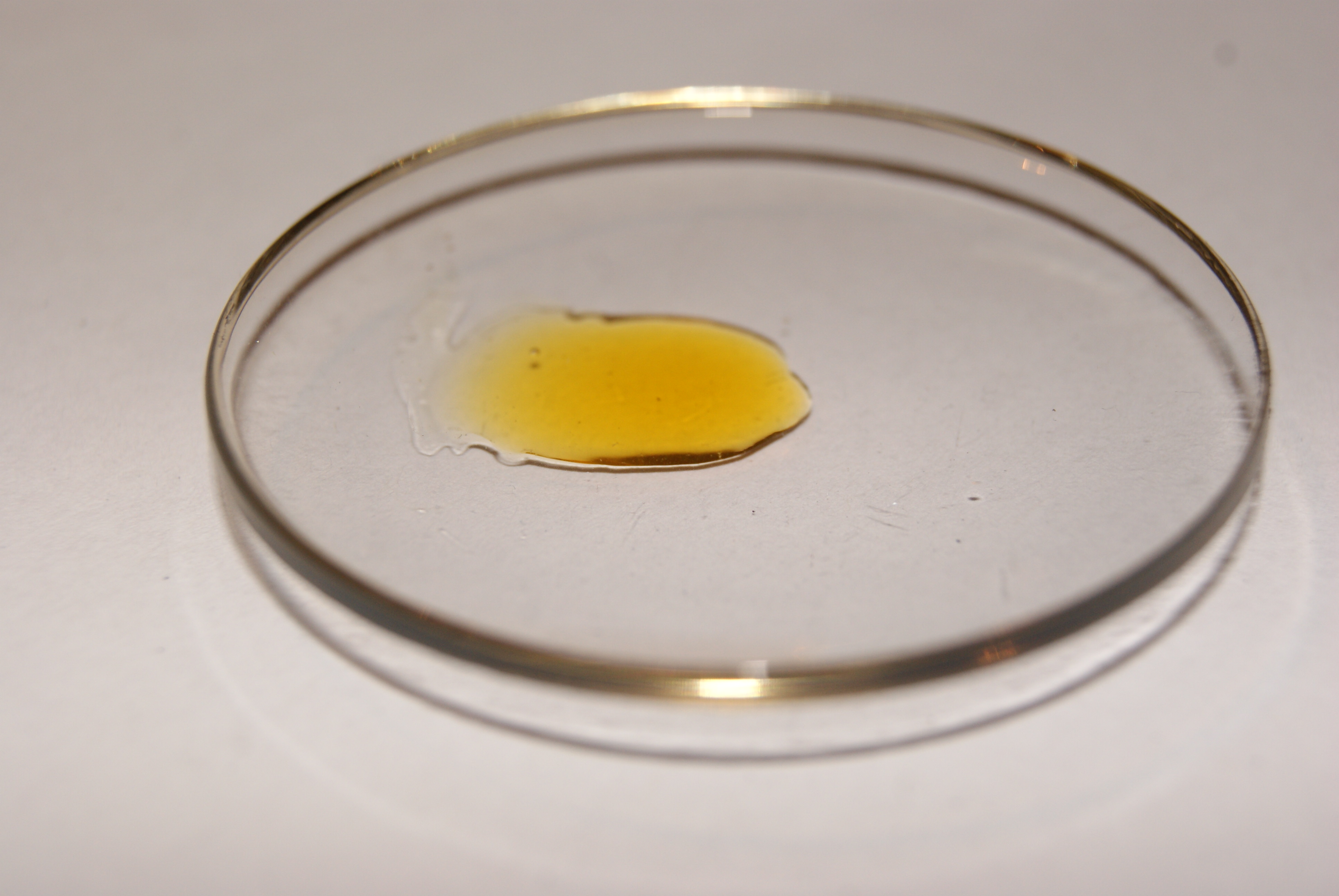 Agkistrodon contortrix laticinctus, venom